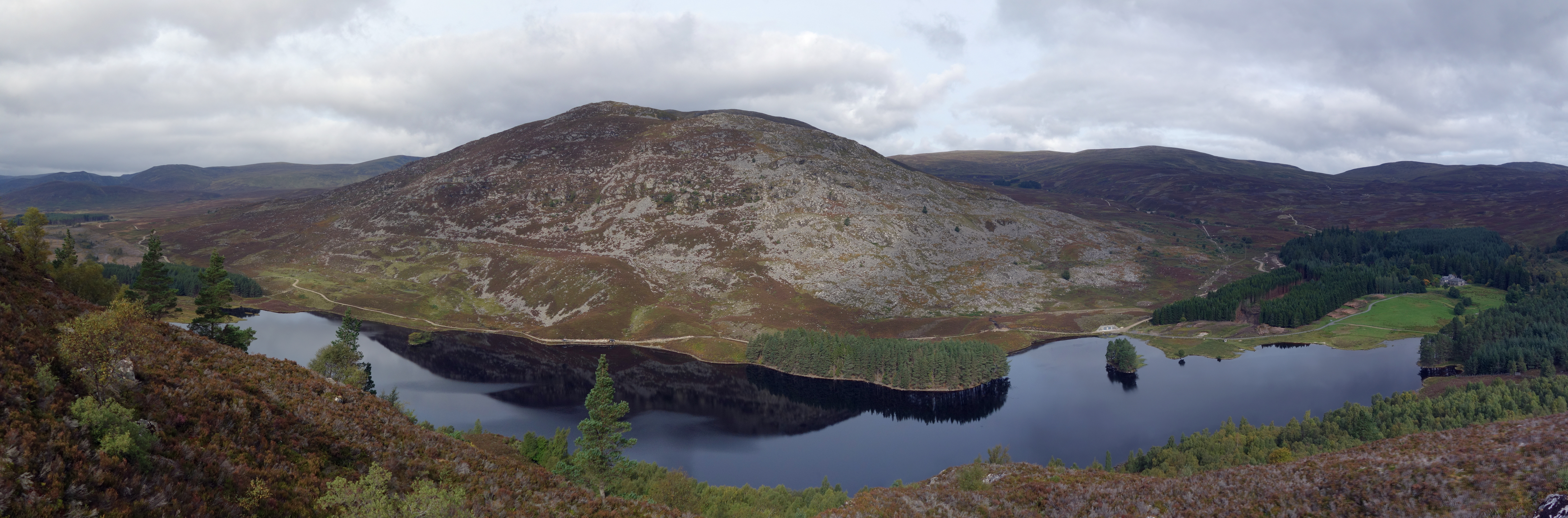 Creag Mhor, of the Monadhliath mountains in the Scottish Highlands, with Loch Gynack in the foreground, as seen from Creag Bheag, near Kingussie.